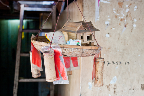 Mrenh Gongveal house in Cambodiaភាសាខ្មែរ: ម្រេញគង្វាល